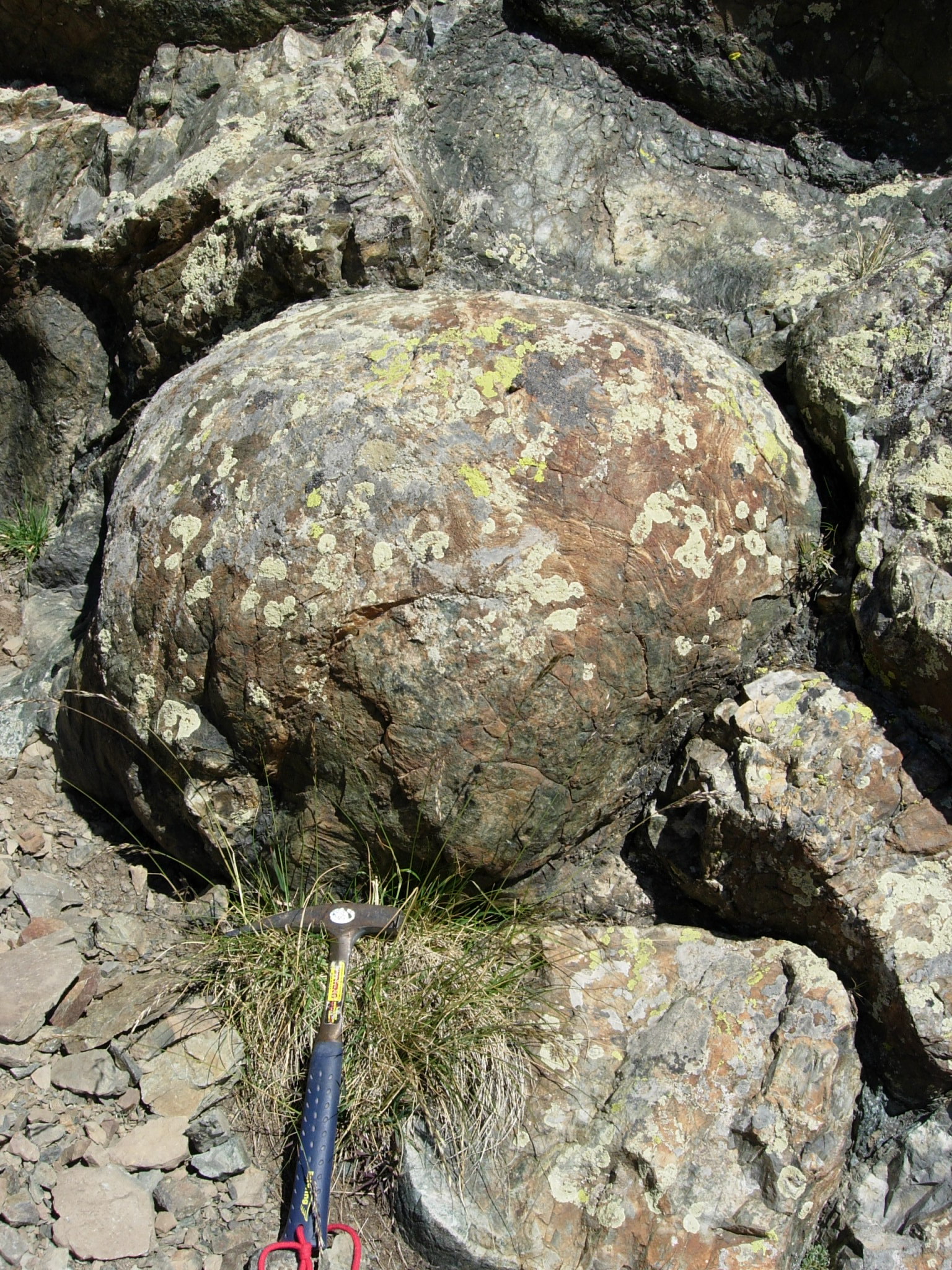 pillow lava of Chenaillet / département des Hautes-Alpes